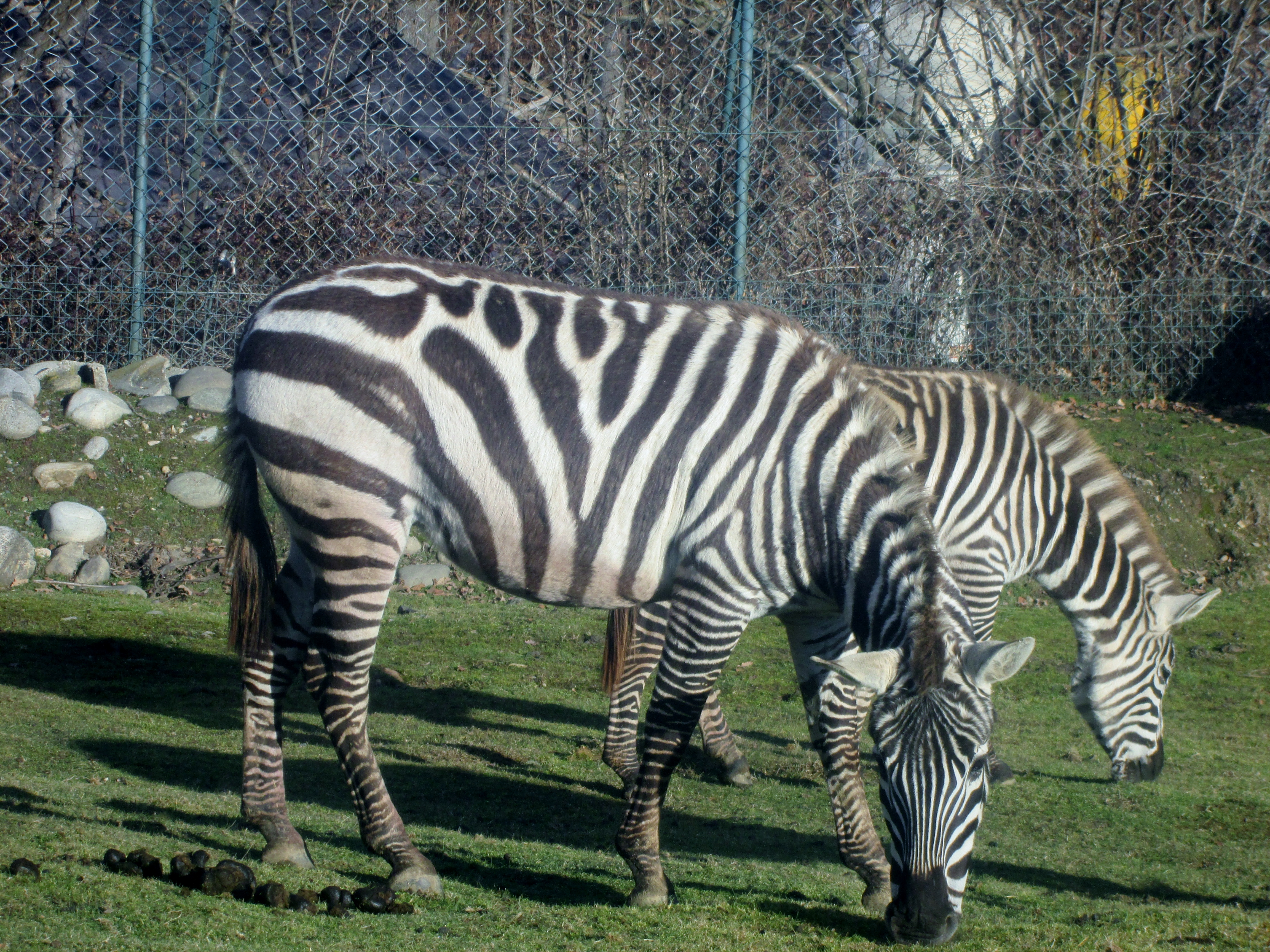 Zebras in Pombia Safari Park ITALY